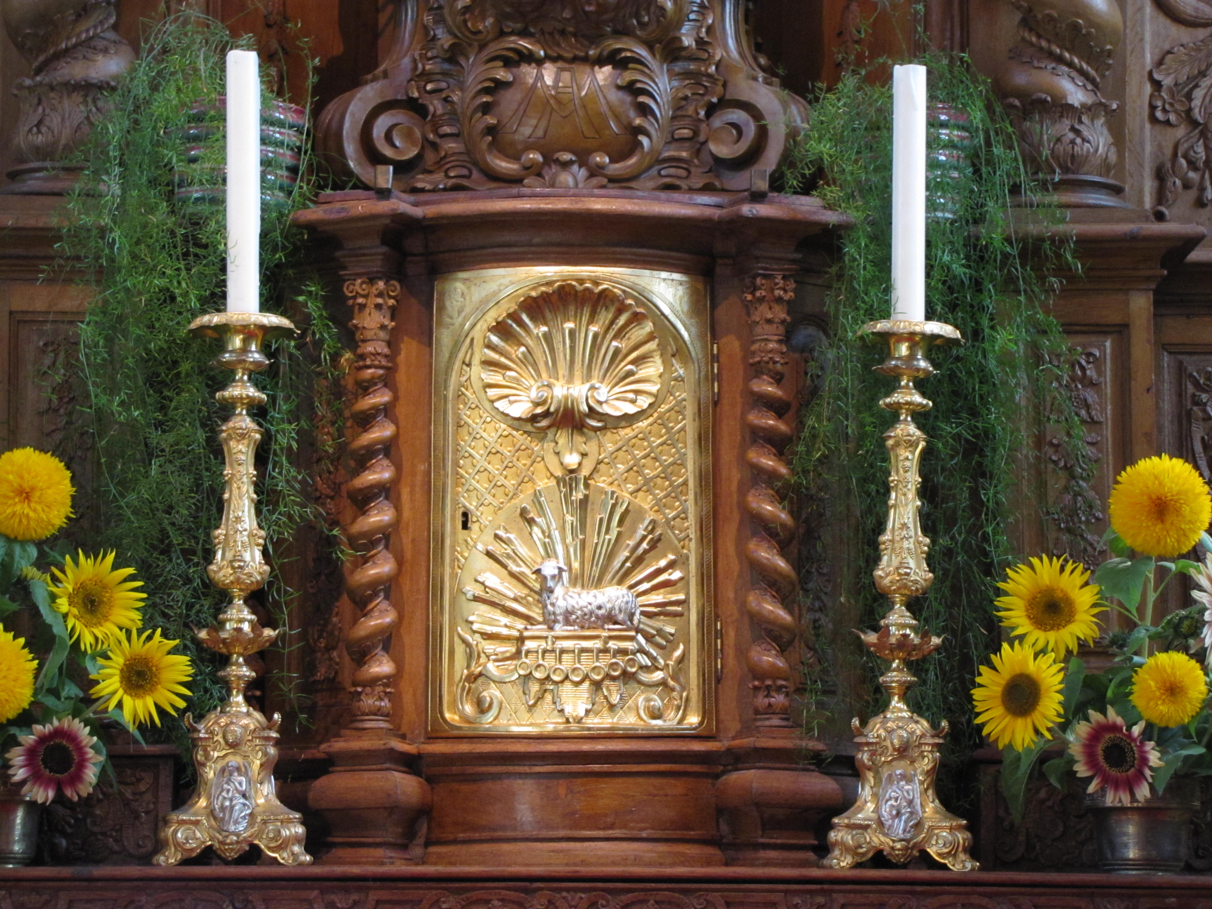 Alsace, Bas-Rhin, Rosenwiller, Église Notre-Dame de l'Assomption (PA00084907, IA00075624). Maître-autel "Assomption de la Vierge" (XVIIe): Agnus Dei (livre aux 7 sceaux). This object is classé Monument Historique in the base Palissy, database of the French furniture patrimony of the French ministry of culture, under the references PM67000244 and IM67001174.